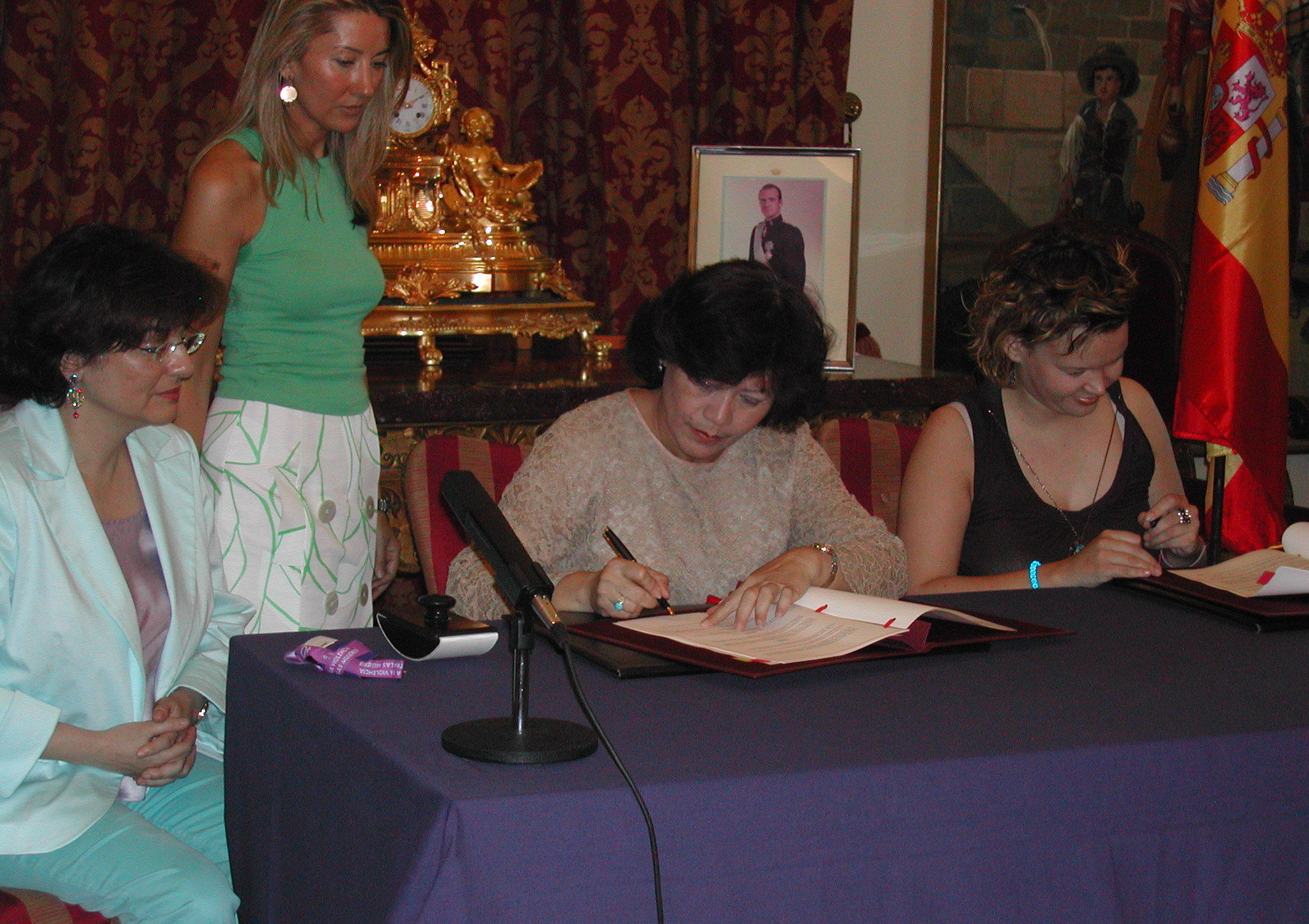 Firma de acuerdo entre España y UNIFEM. Nombre de archivo :DSCN1884.JPG Tamaño de archivo :748.0 KB (765933 Bytes) Fecha de entrega :0000/00/00 00:00:00 Tamaño de imagen :2048 x 1536 Resolución :300 x 300 ppp Número de bits :canal de 8 bits Atributo Protección :Desactivado Atributo Ocultar :Desactivado ID de la cámara :N/A Cámara :E885 Modo Calidad :NORMAL Modo Medición :Multipatrón Modo Exposición :Automático Programado Speed Light :Sí Distancia Focal :14.2 mm Velocidad del disparador :1/60.1segundo Abertura :F3.7 Compensación de exposición :0 EV Balance del blanco fijo :Automático Objetivo :Incorporado Modo de sincronización del flash :Reducción de ojos rojos Diferencia de exposición :N/A Programa Flexible :N/A Sensibilidad :Auto Nitidez :Automático Tipo de imagen :Color Modo de color :N/A Ajuste de tonos :N/A Control de saturación :Normal Compensación de tono :Automático Latitud (GPS) :N/A Longitud (GPS) :N/A Altitud (GPS) :N/A